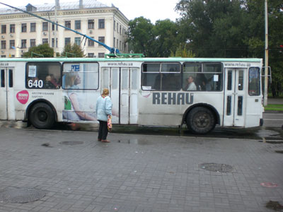 ZiU trolleybus #640 in Zaporizhzhya